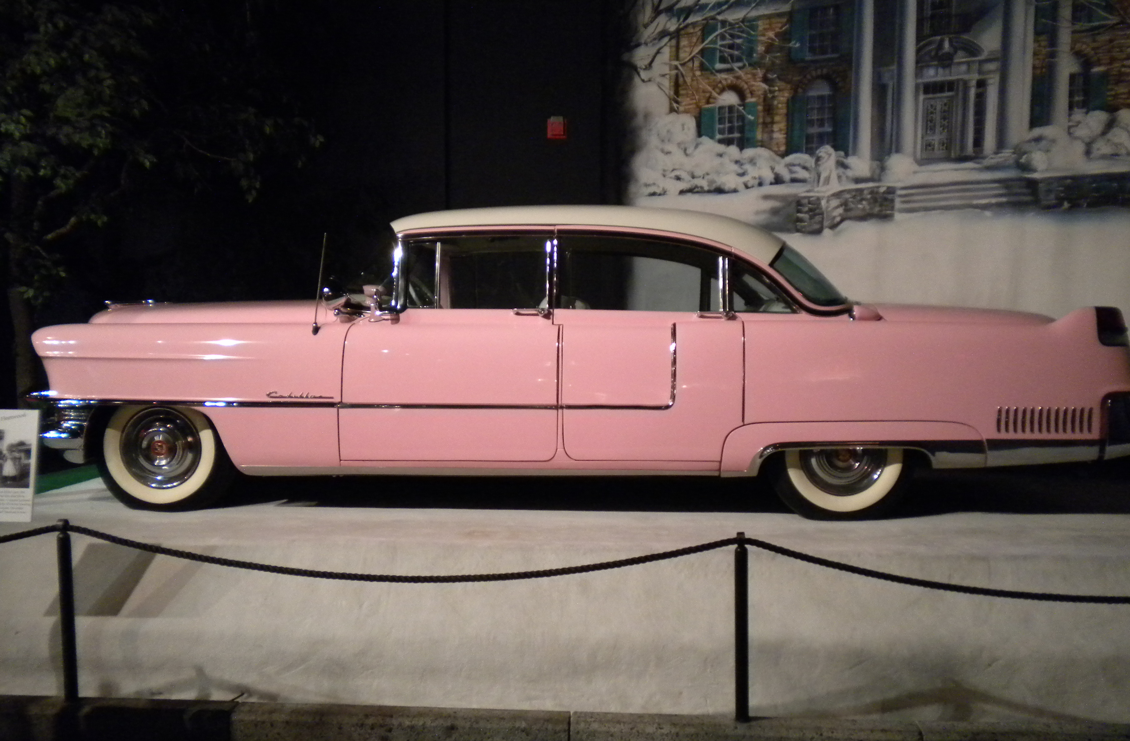 Elvis Presley Pink Cadillac on display in the car museum at Graceland.